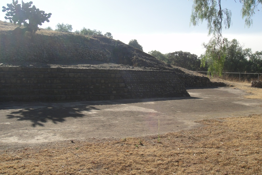 Huexotla, Structure 1, stair and stuccoed floor